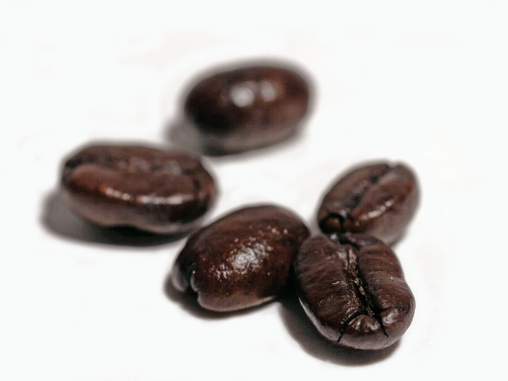 Coffee beans